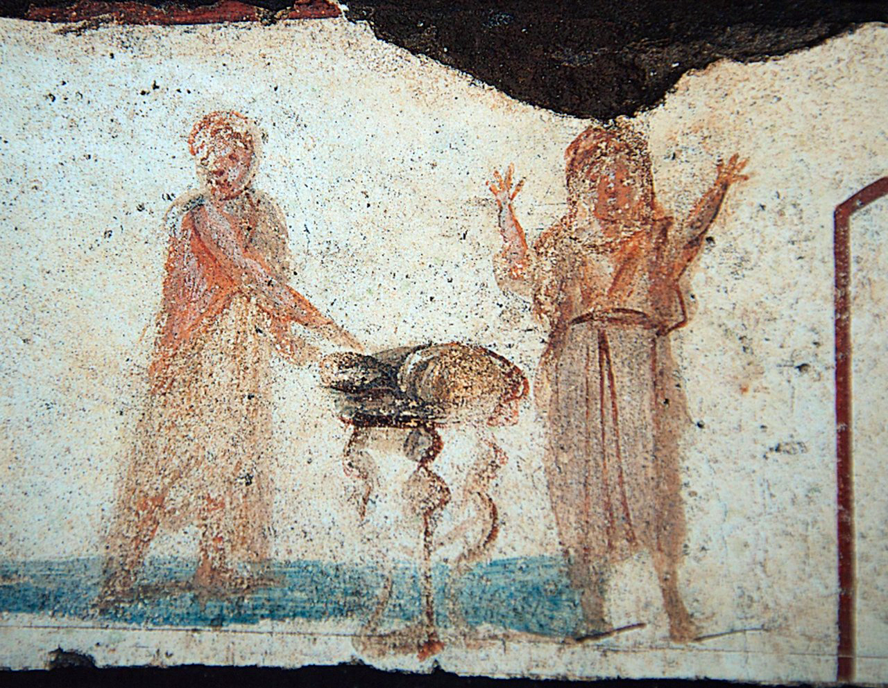 Painting in the Early-Christian catacomb of San Callisto (Saint Calixte Catacomb)